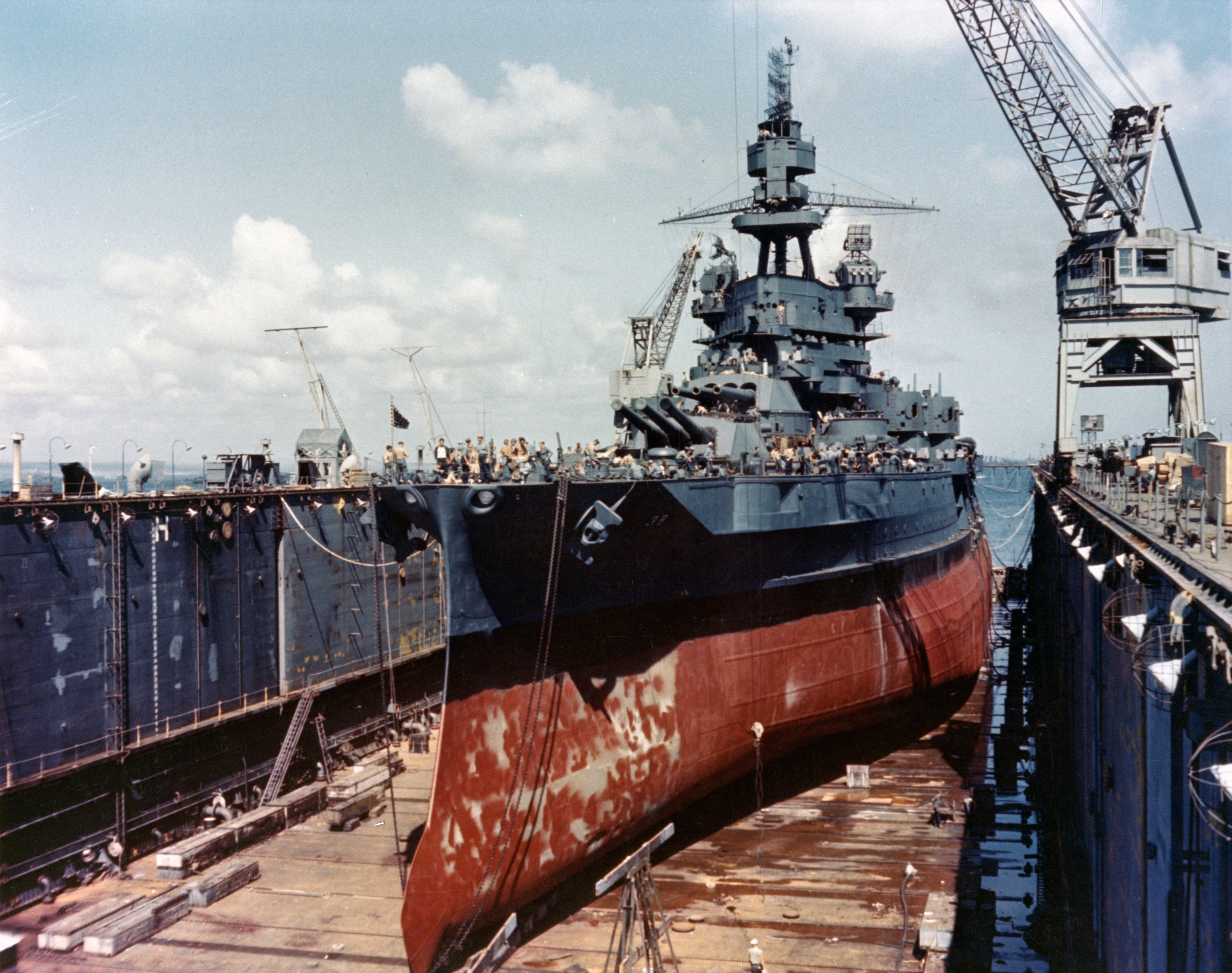 The U.S. Navy battleship USS Pennsylvania (BB-38) drydocked in an Advanced Base Sectional Dock (ABSD) at the Pacific, circa 1944. Note the extensive anti-torpedo "blister" built into her hull side and paravane streaming chains running from her forefoot to her foredeck. She is painted in Camouflage Measure 21.